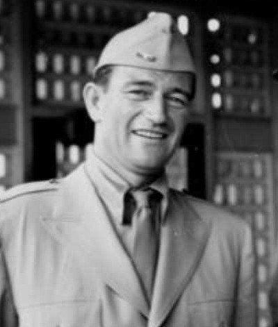 Hollywood actor John Wayne visited Australia during World War II to entertain the troops in forward areas. This photograph was taken at the Albion Park Raceway, Breakfast Creek, Brisbane, on 27 December 1943. He poses here, dressed in full military uniform, with Lt. Col. Blackween.